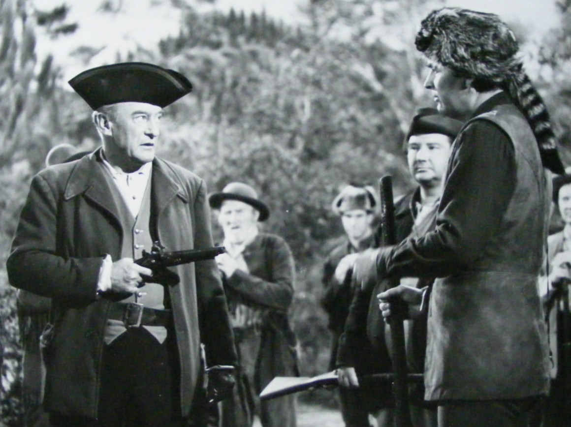 Publicity photo of Fess Parker and guest star George Sanders on Daniel Boone, 1966.